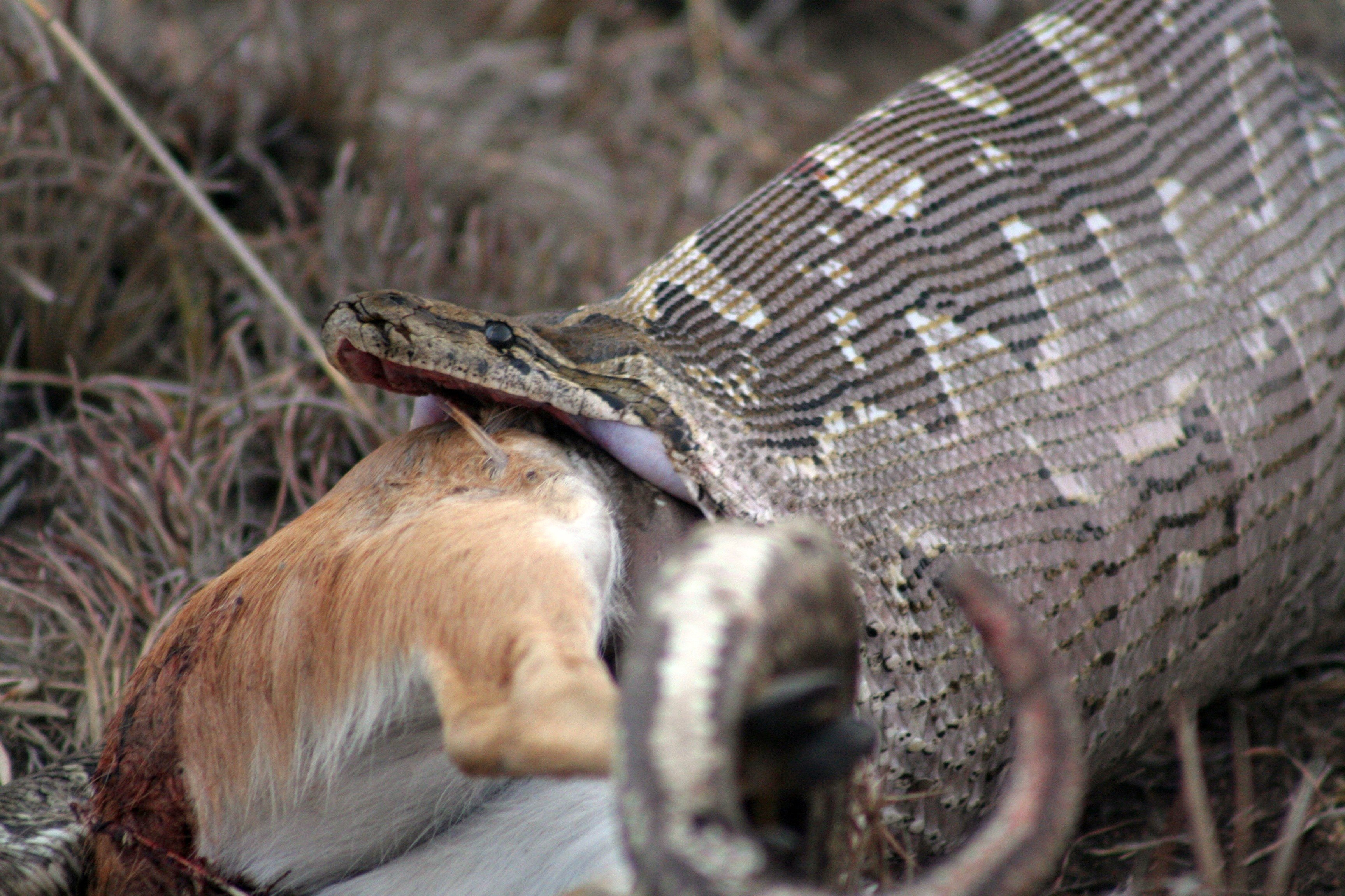 A Southern African Rock Python about 10ft trying very hard to eat a small Steenbok. The picture was taken in the Sabi Sands Game Reserve, South Africa.